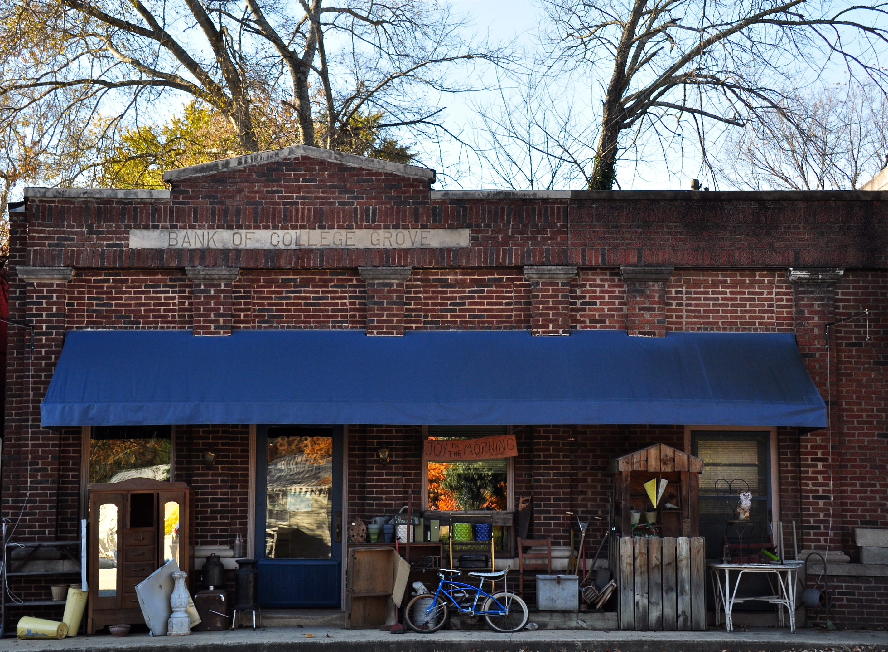 The Bank of College Grove is a former financial building built in 1911 and is listed on the National Register of Historic Places. NRHP Reference # 88000289